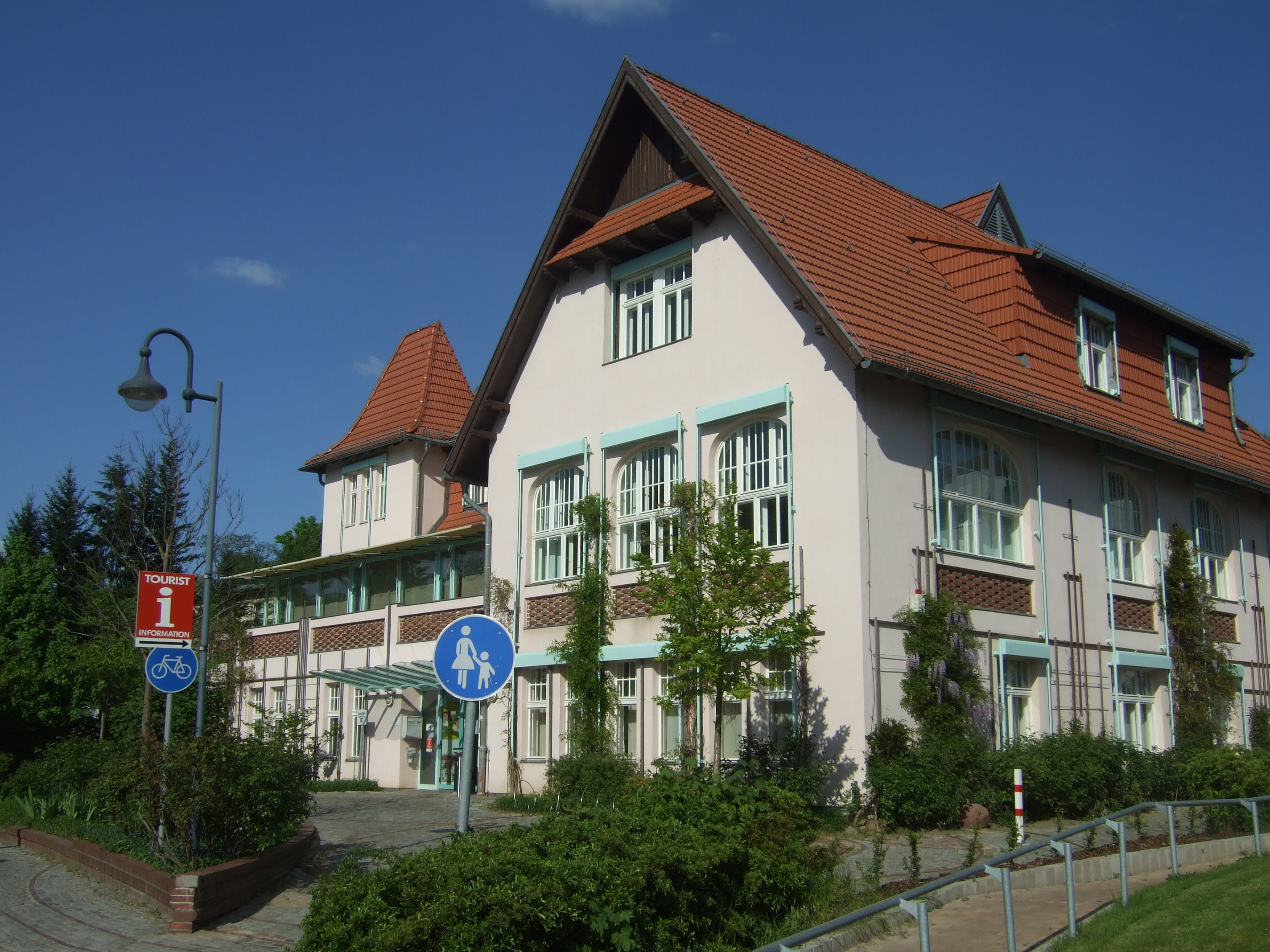 Parish house and registry office Wandlitz, former Soviet Commander's office, former Hotel "Rünger" in Wandlitz, Brandenburg, Germany.